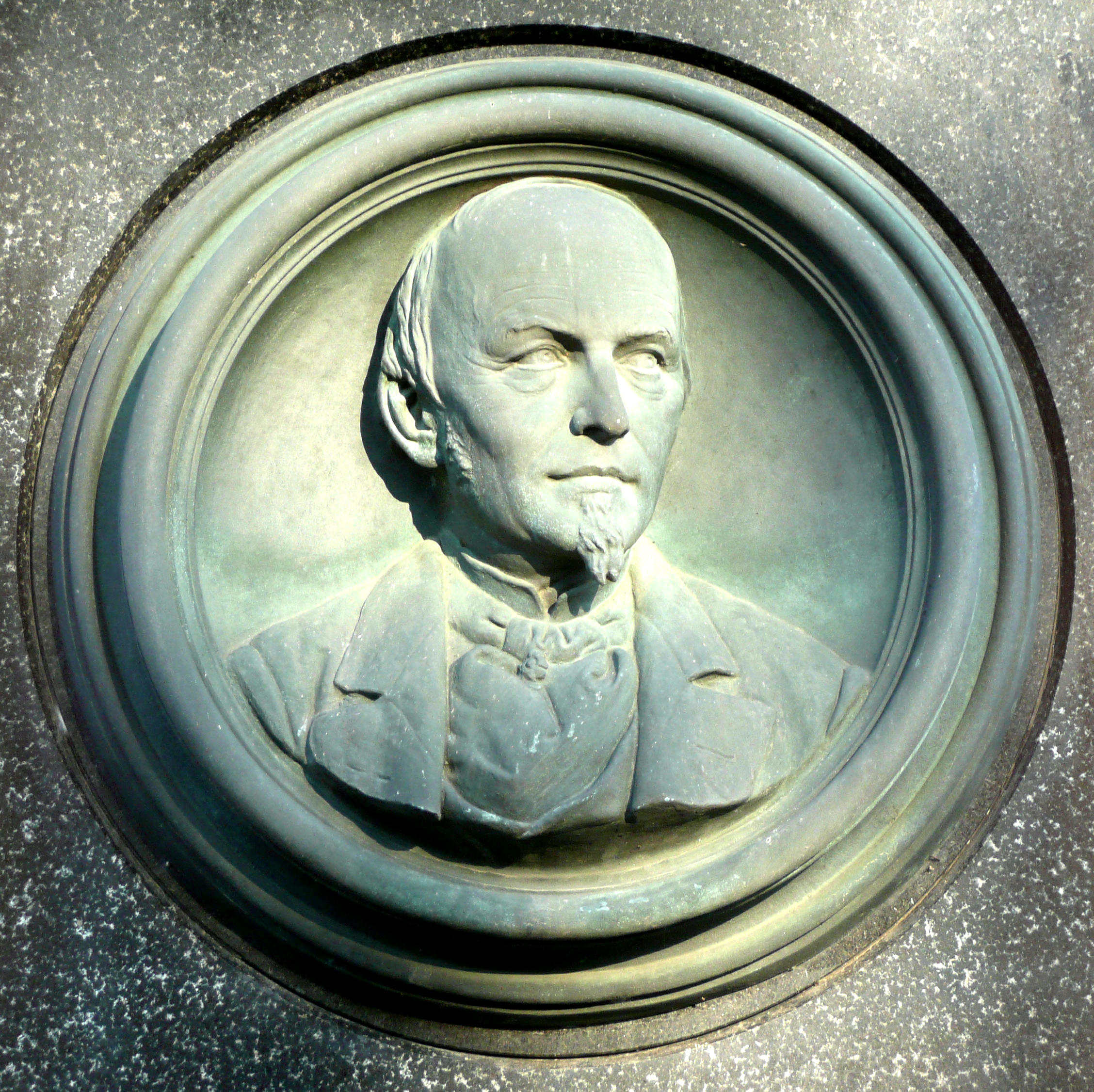 This image shows Ferdinand Adolph Lange (1815-1875), a famous german watchmaker and founder of the A. Lange & Söhne factory in Glashütte.